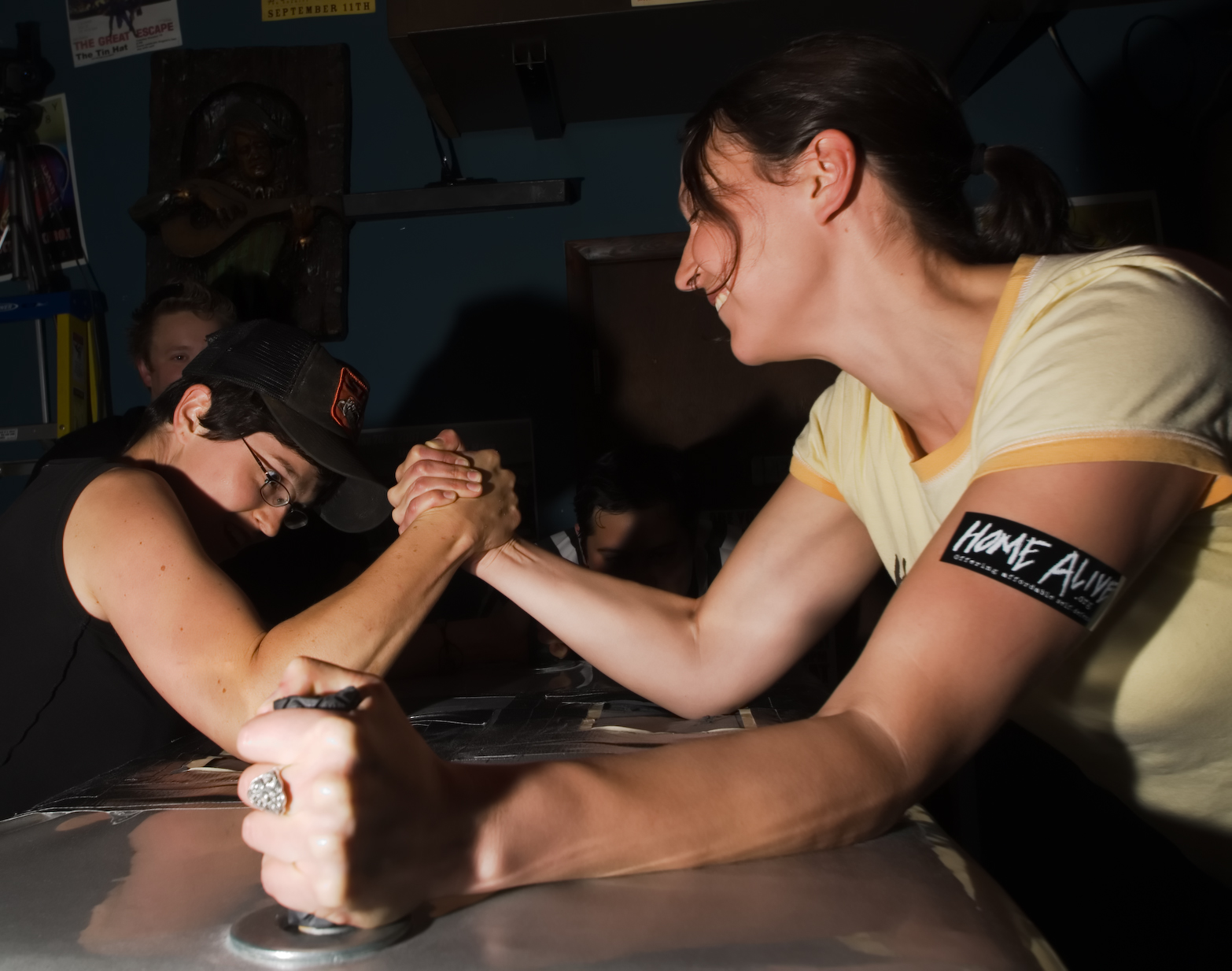 tin hat girls arm wrestling home alive